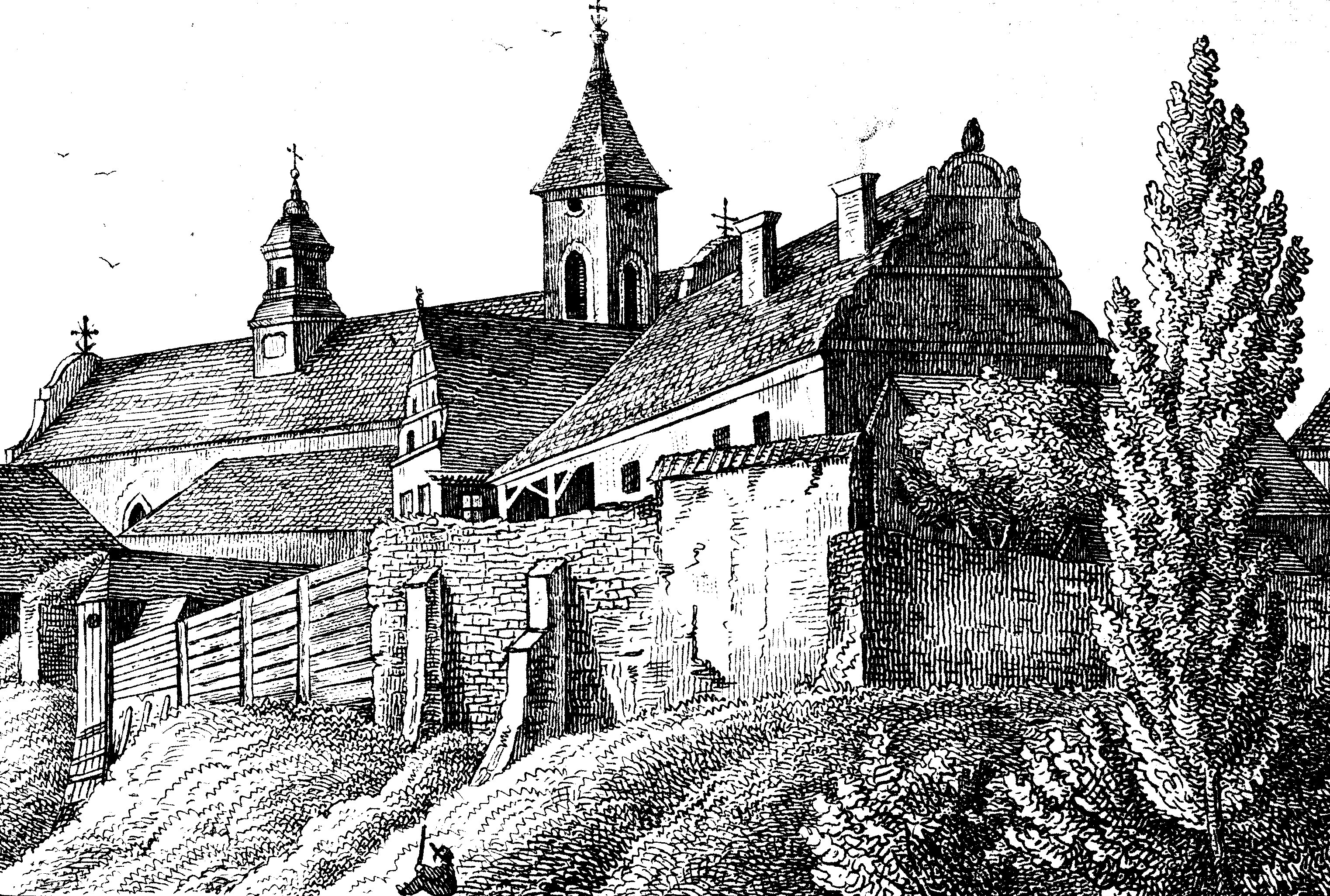 Poor Clares' cloister in Gniezno.